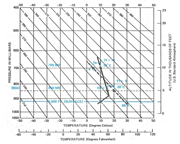 Définition of the Thermal Index provided by the FAA to determine the quality of soaring conditions